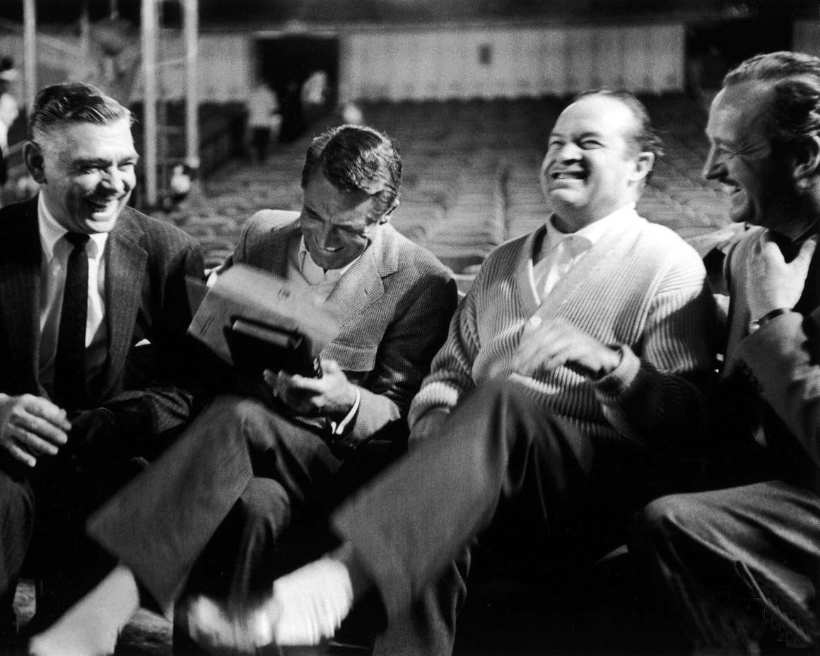 Clark Gable, Cary Grant, Bob Hope & David Niven, publicity photo 1950s